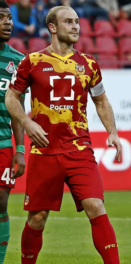 Kantemir Berkhamov with FC Arsenal Tula in a game against FC Lokomotiv Moscow.